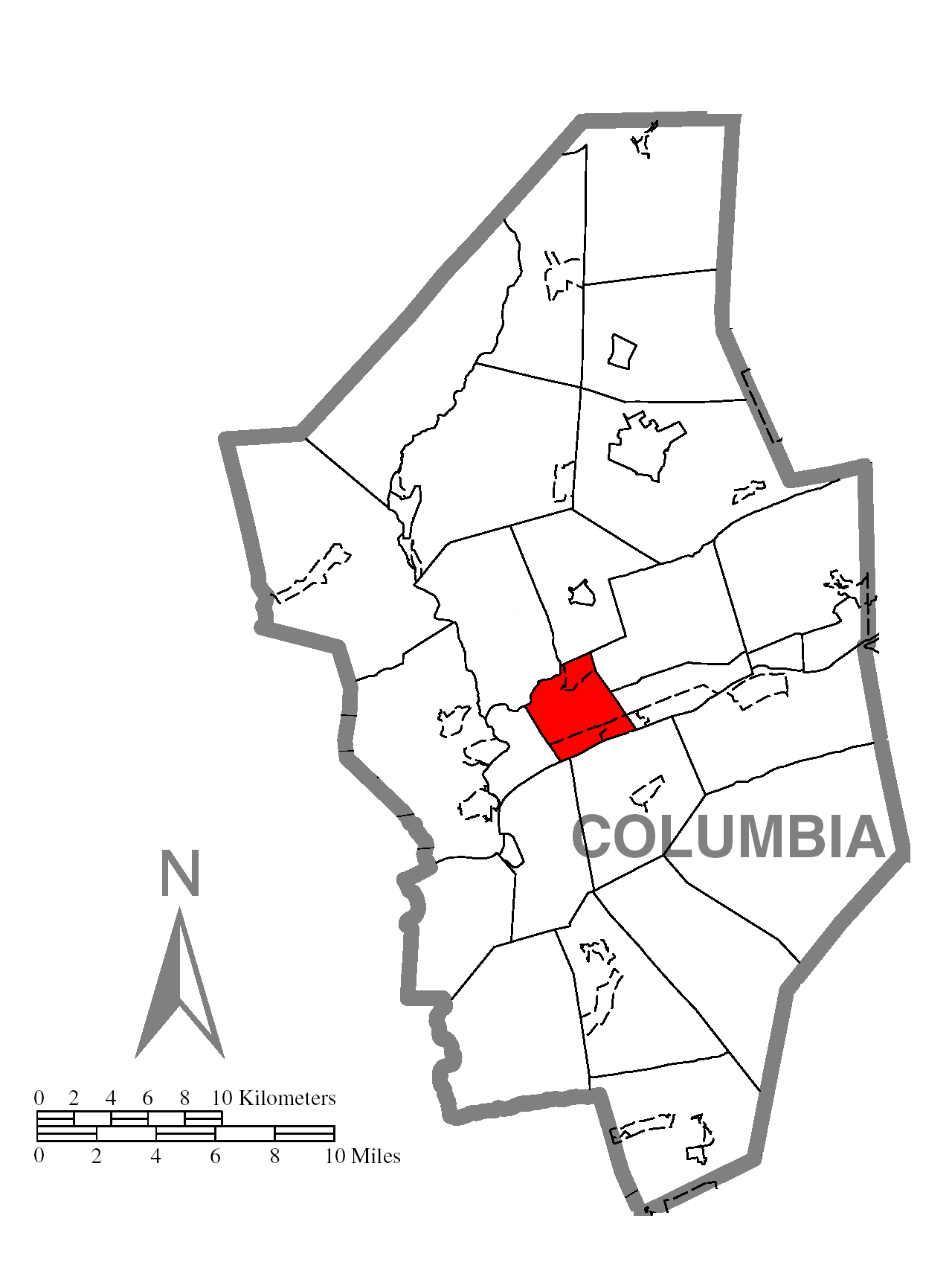 A map of Columbia County showing Scott Township, Pennsylvania (alternate) highlighted on the map.